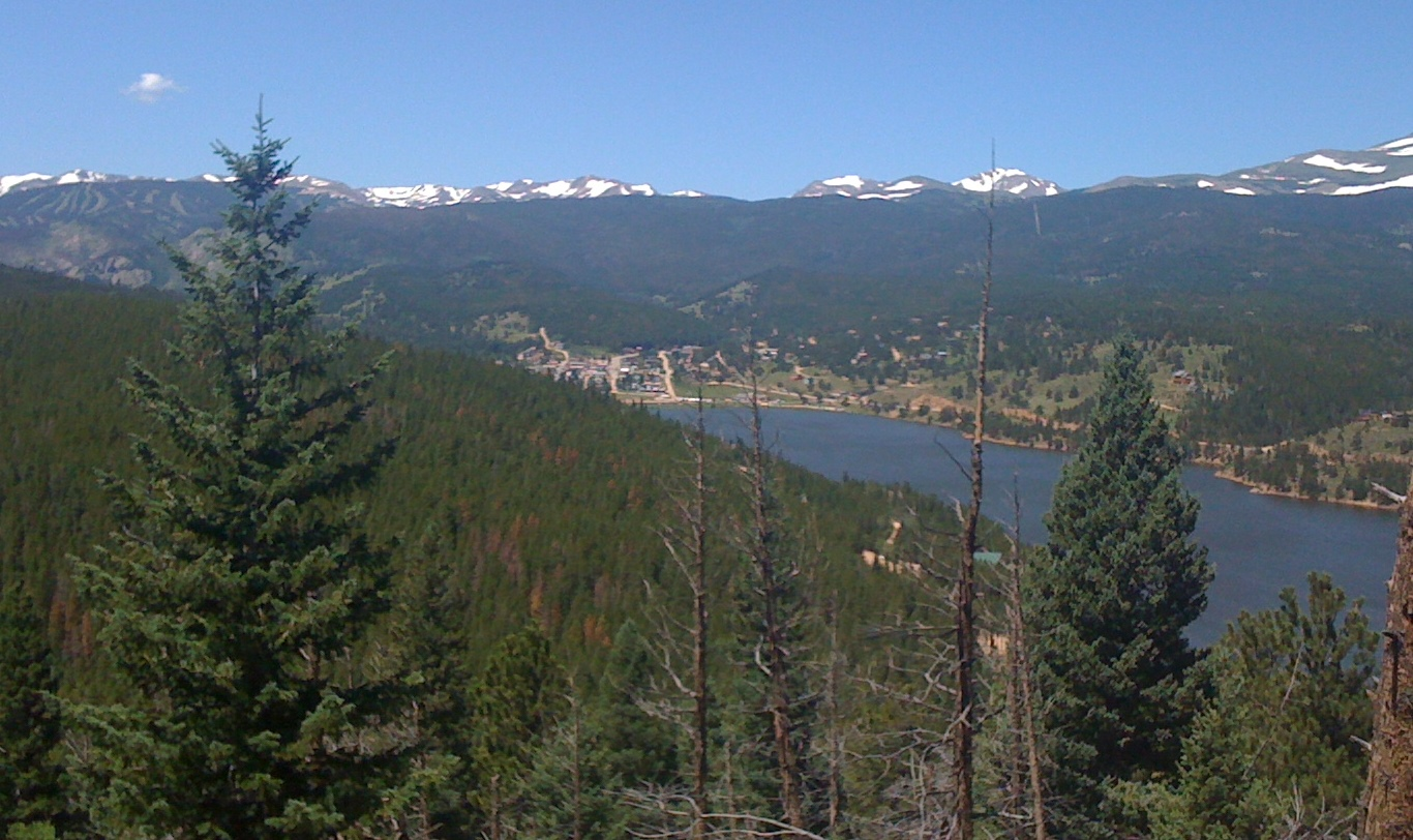 Nederland, CO